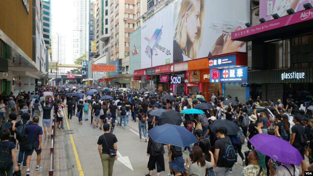 Protesters participate the protest, which held in Kowloon, Hong Kong on October 20, 2019. 中文（中国大陆）: 2019年10月20日，示威者参加香港九龙举行的大游行活动。